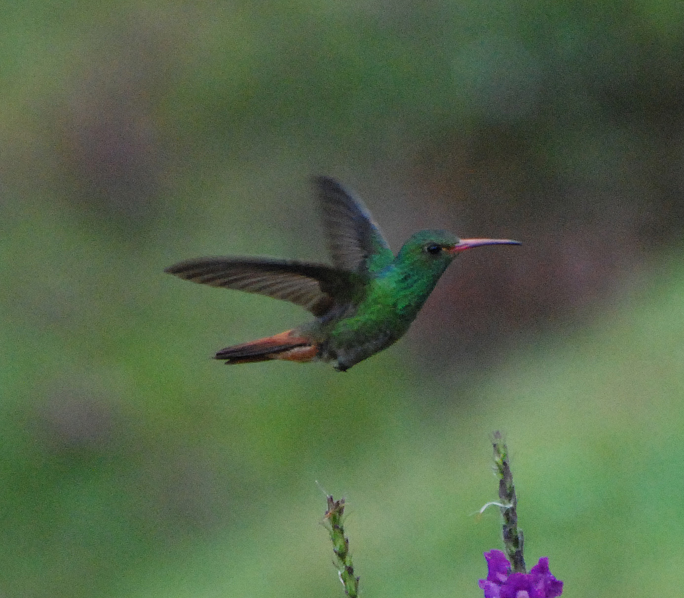 Rufous-tailed Hummingbird (Amazilia tzacatl) at the Arenal Volcano Lodge, Costa Rica, 080224. Amazilia tzacatl.